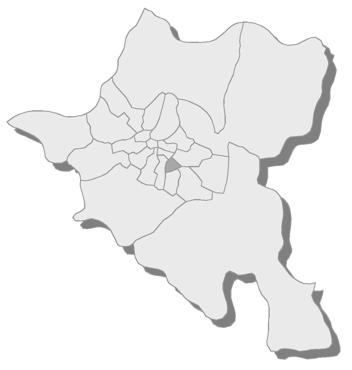 Sofia, municipality Izgrev